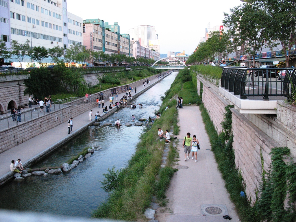 Map it: Google Earth | Street | Satellite | Hybrid | Nautical Cheong Gye Cheon stream. It runs through the city and the odd thing is, I didn't see any drain lines connecting into the channel.